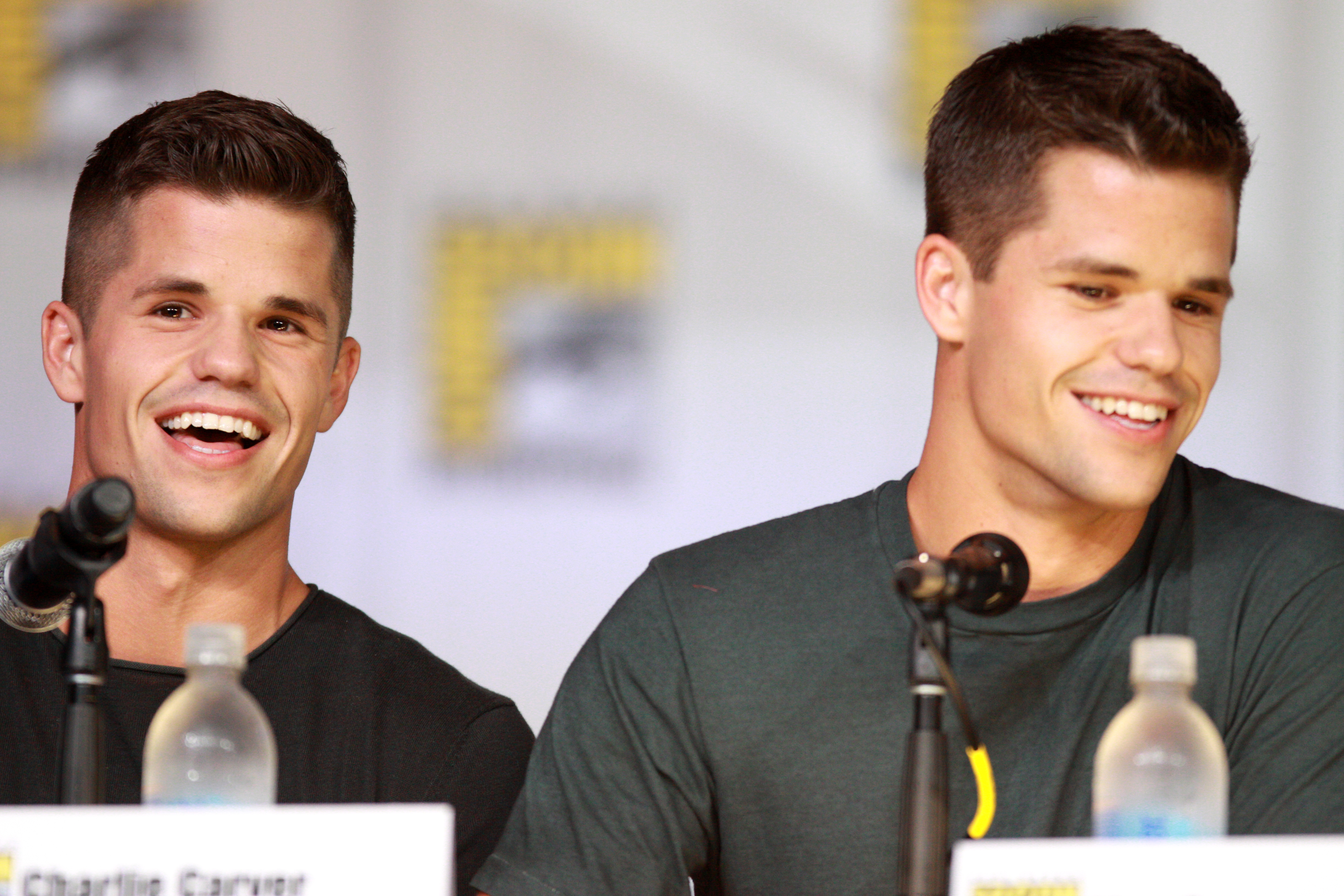 Charlie Carver and Max Carver speaking at the 2013 San Diego Comic Con International, for "Teen Wolf", at the San Diego Convention Center in San Diego, California.